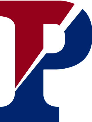 Penn Quakers wordmark